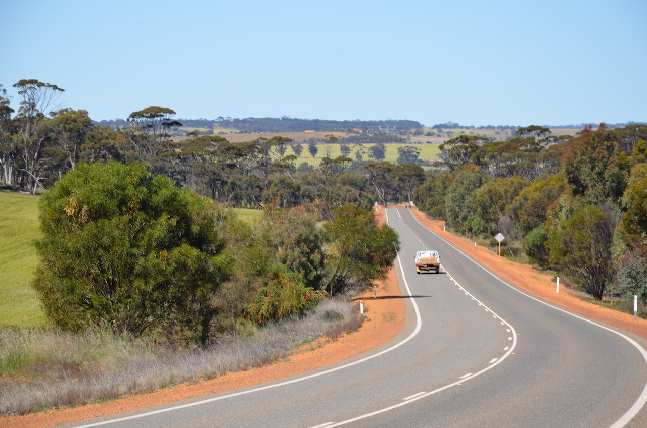 Brookton Highway, a few kms west of Brookton, Western Australia heading east